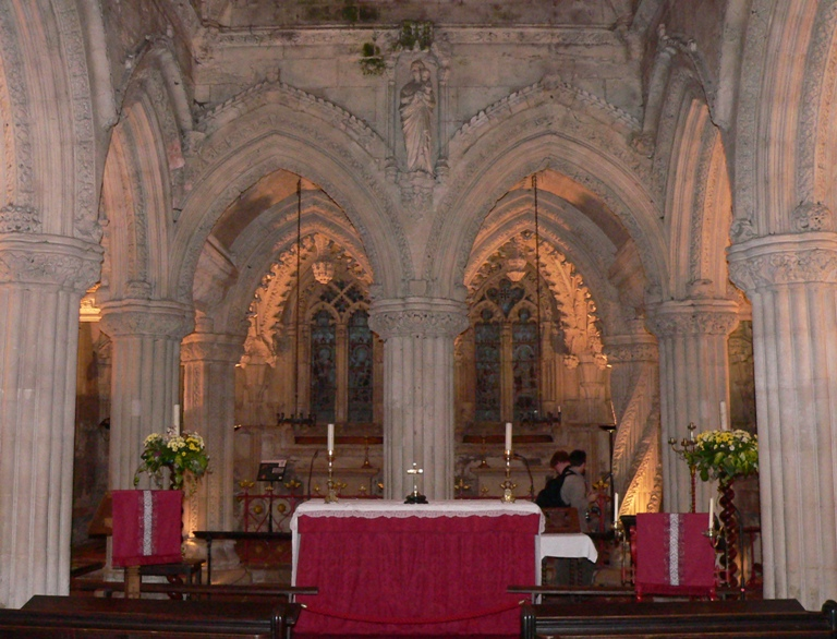 Rosslyn Chapel, Midlothian, Scotland - altar